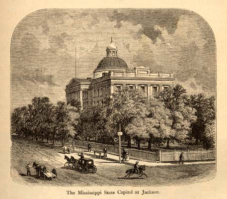 1875 Mississippi Capitol building illustration by James Wells Champney from the 1875 book "The Great South; A Record of Journeys in Louisiana, Texas, the Indian Territory, Missouri, Arkansas, Mississippi, Alabama, Georgia, Florida, South Carolina, North Carolina, Kentucky, Tennessee, Virginia, West Virginia, and Maryland Edward King "